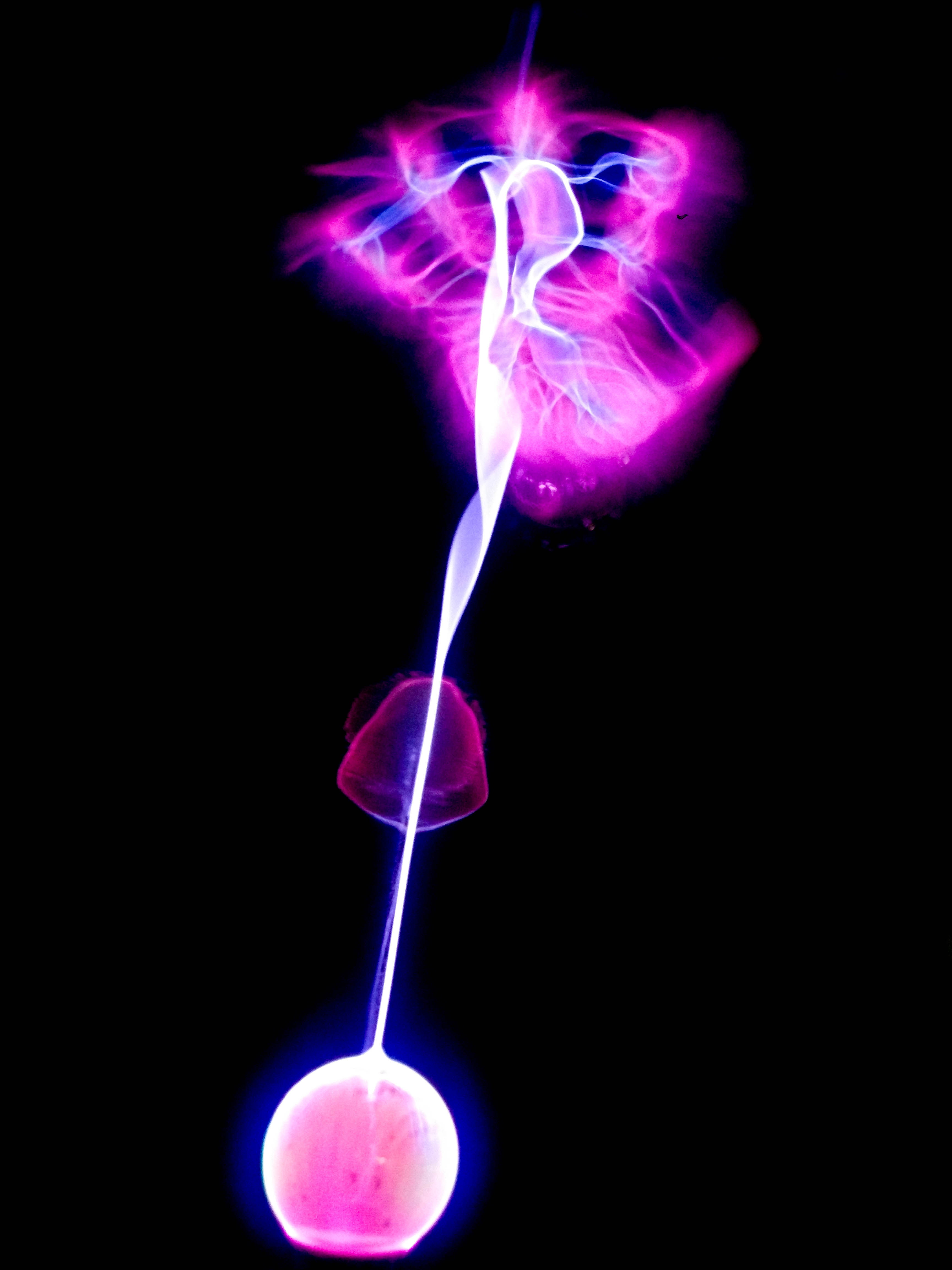 The spectacular human interaction with science. Plasma ball at Pavilion of Knowledge, Lisbon.